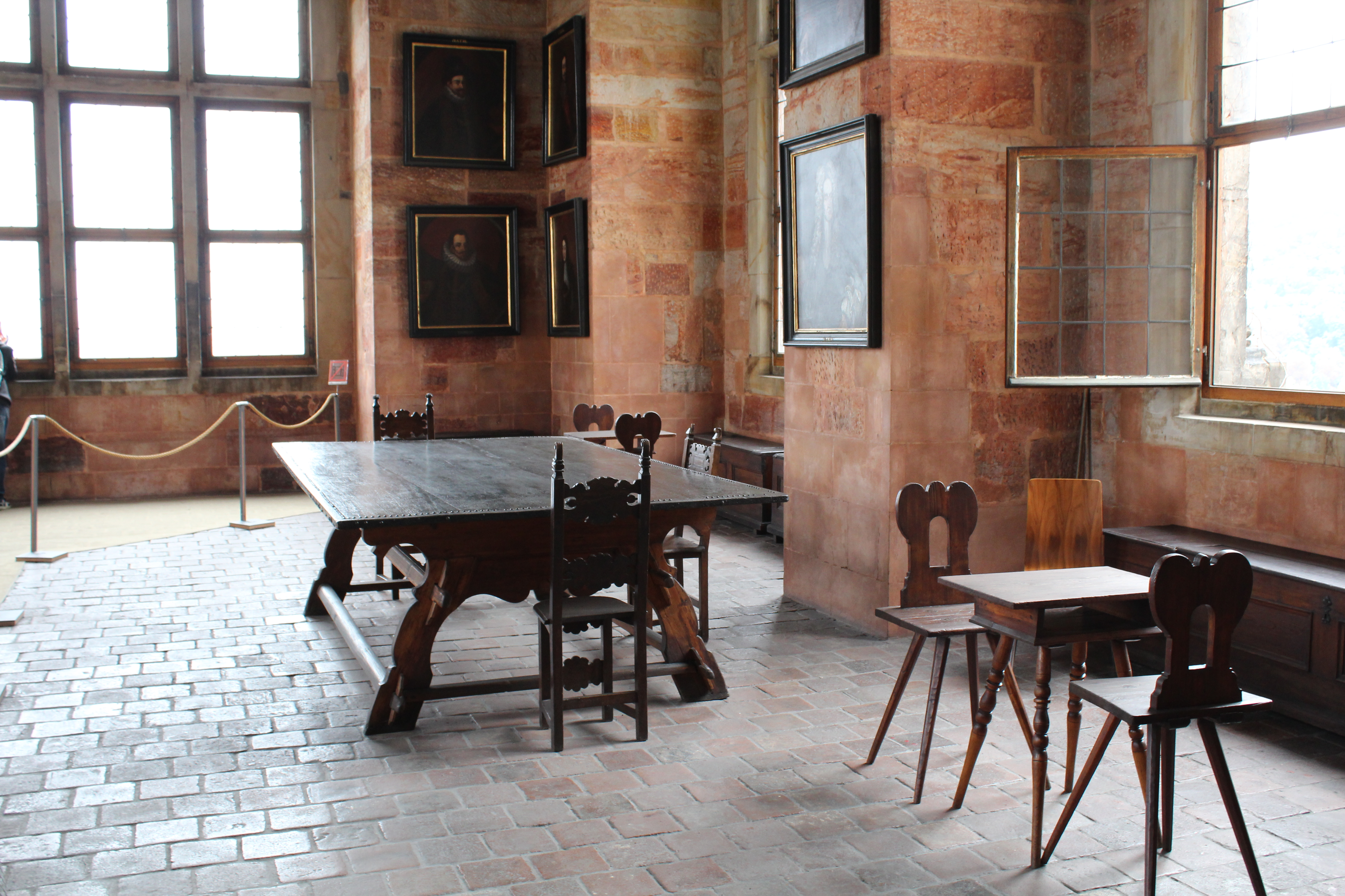 Old Royal Palace (Prague Castle)